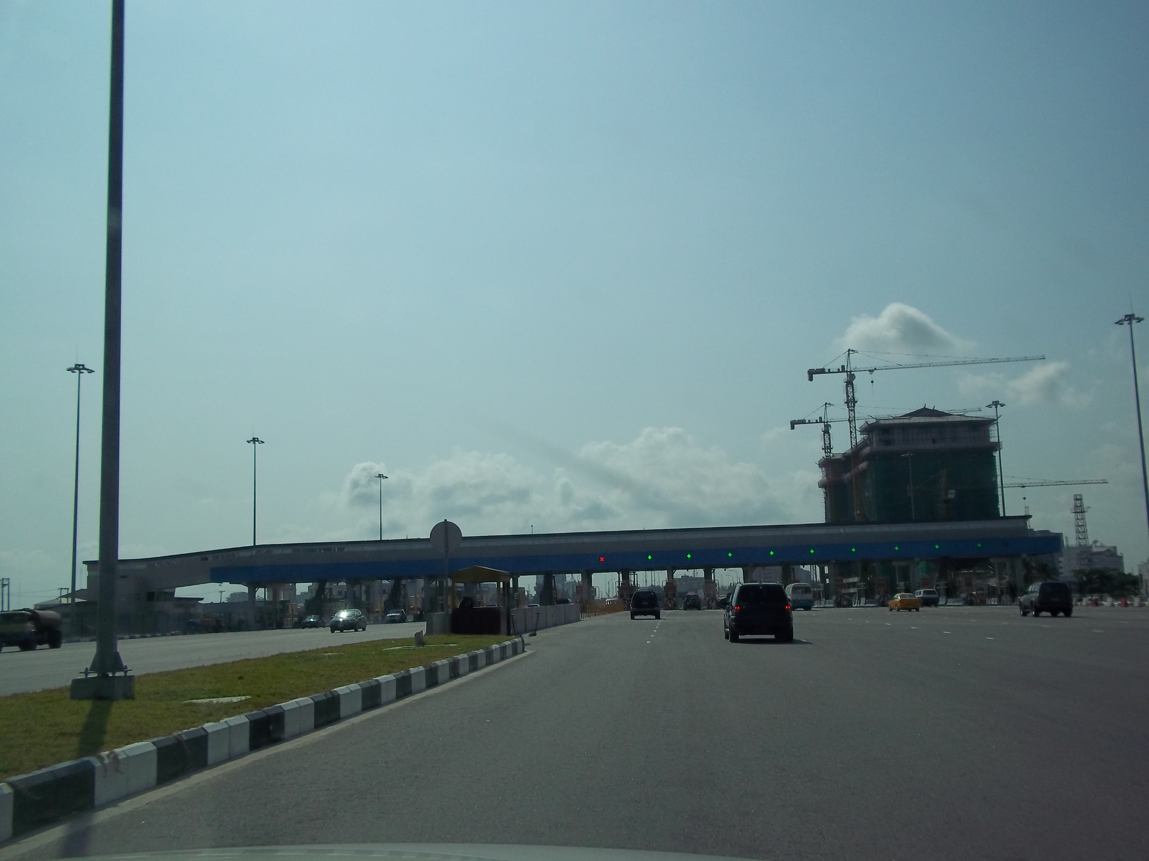 A site of newly constructed toll gates and roads at Lekki-Ẹpẹ Expressway, just between Victoria Island Annex and Lekki; in Lagos, Nigeria. Civil works by Lebanese-owned Hitech.